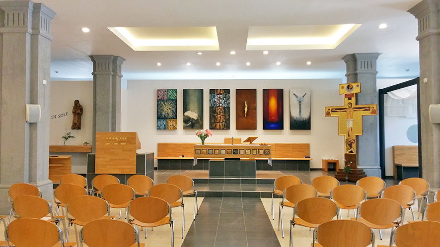 The Capuchin Church in Talbyeh, Jerusalem